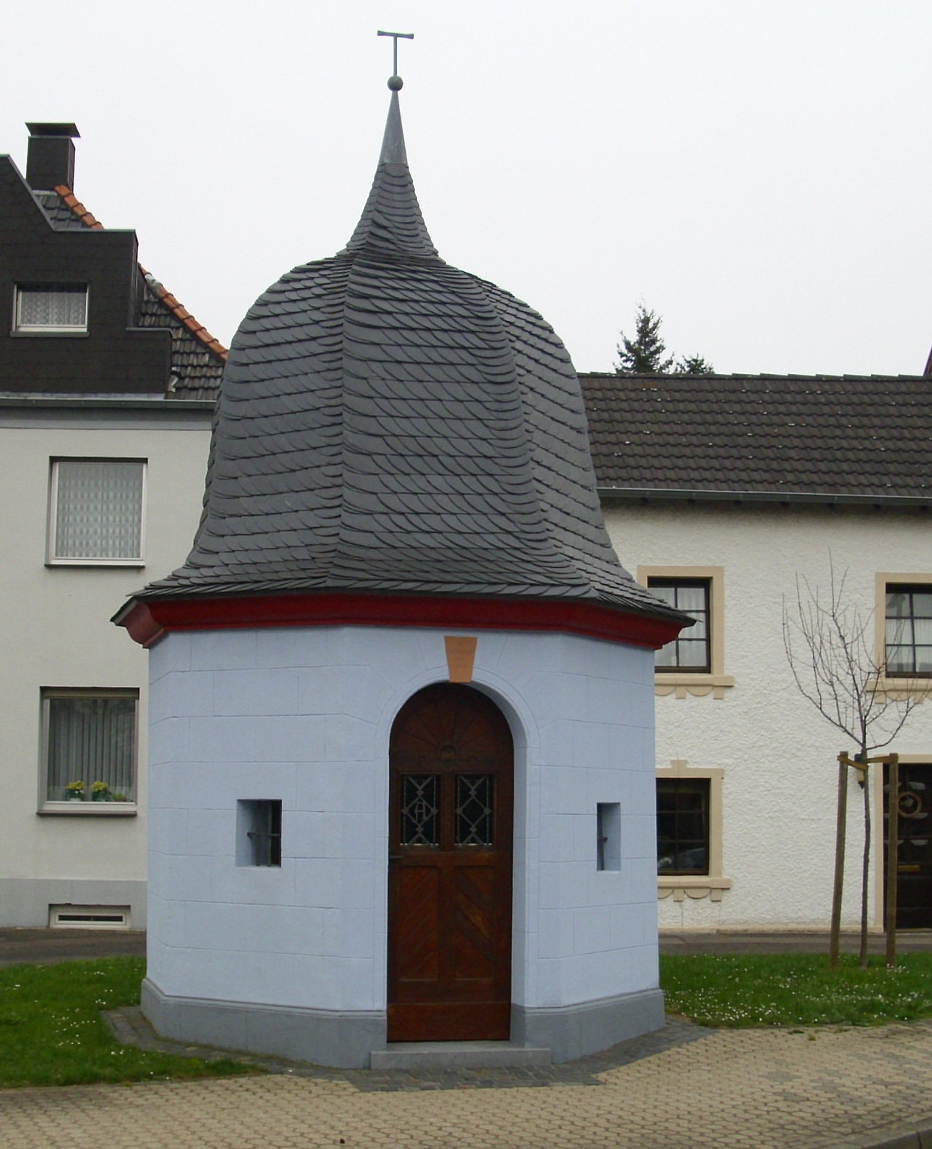 St. Antonius-chapel in Düren-Lendersdorf, 1650.